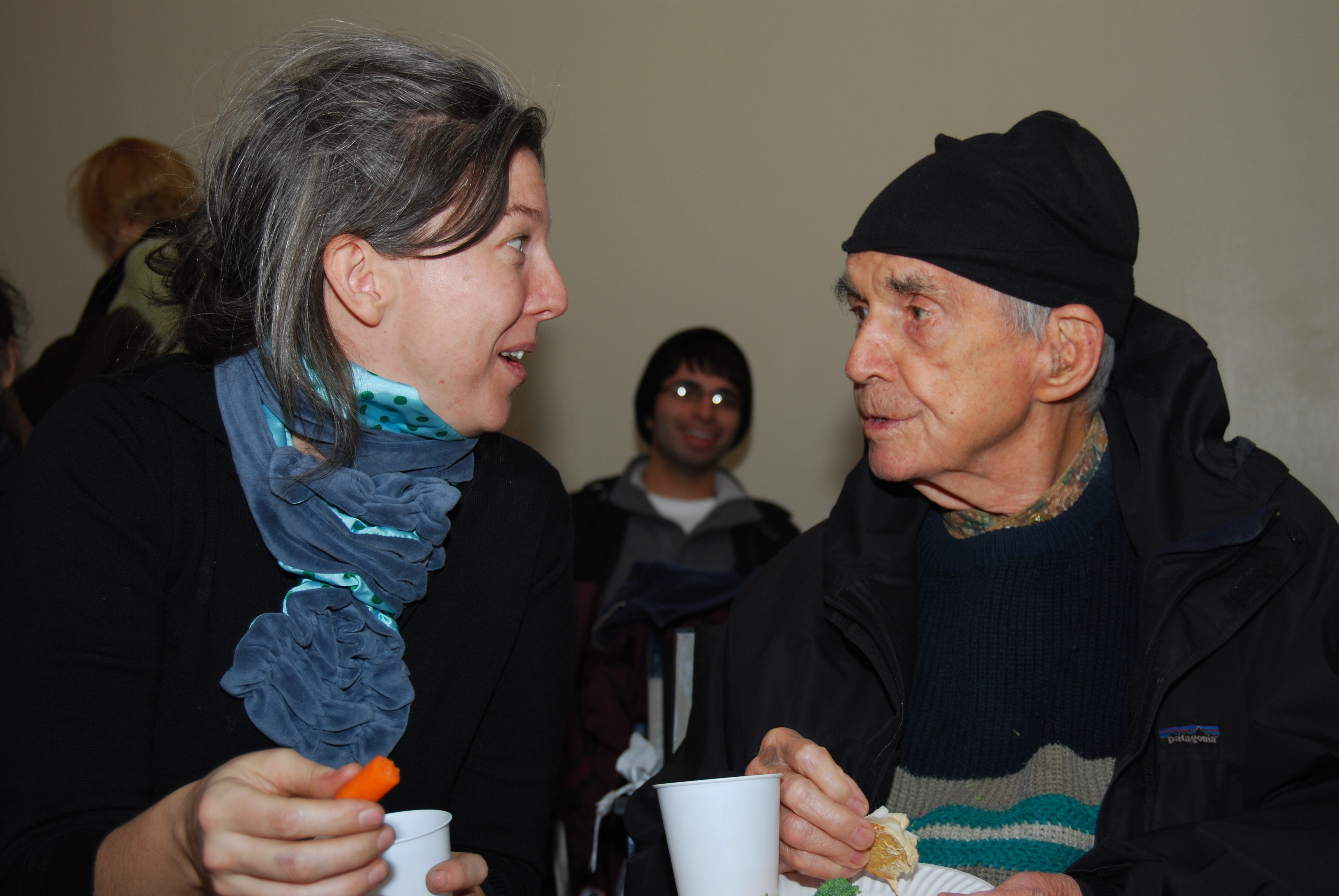 Activist Frida Berrigan and her uncle - Daniel Berrigan - share a moment. The photograph was taken at a Witness Against Torture event held in NYC's Lower East Side on December 18, 2008.